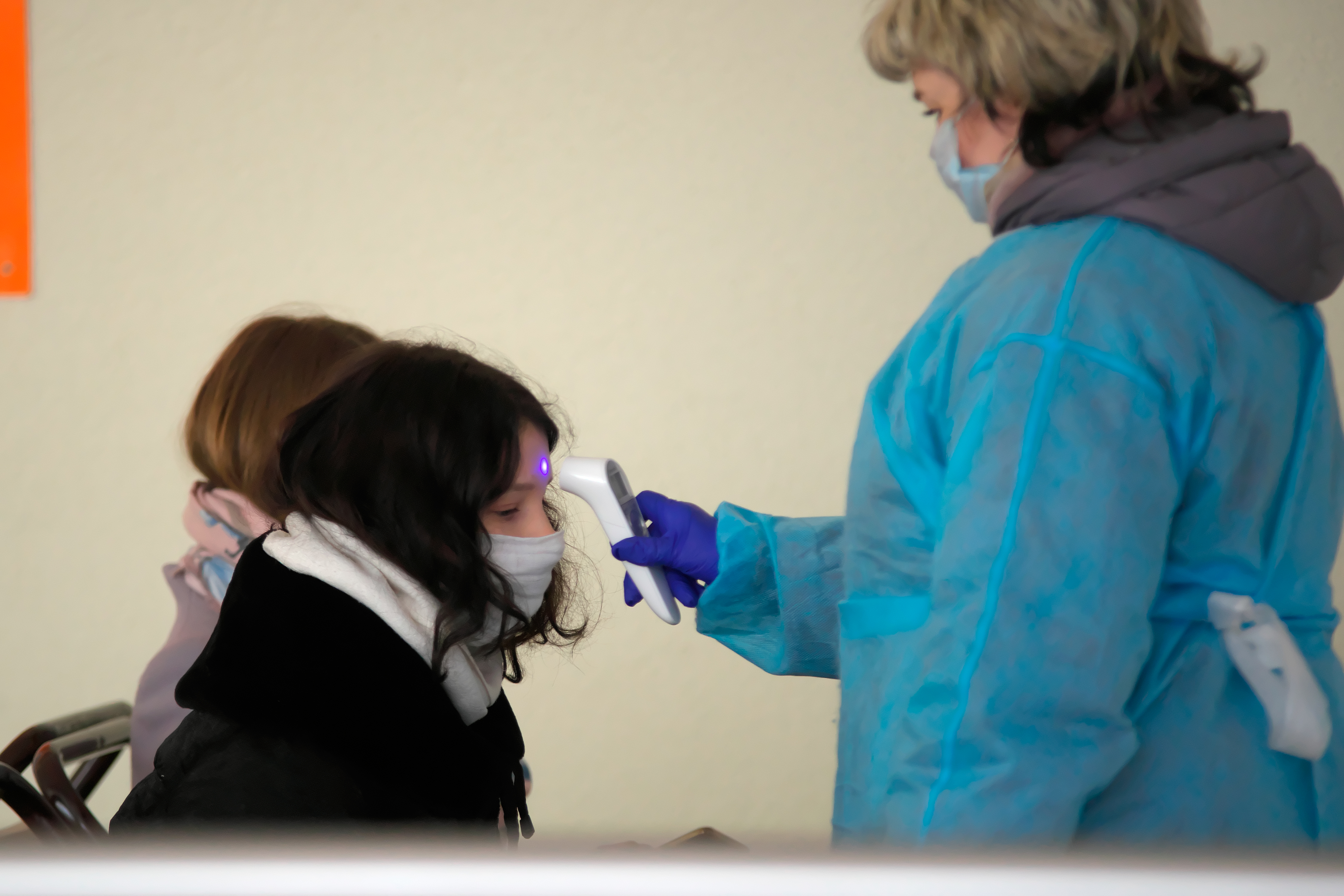 Temperature measurement with a non-contact thermometer at a bus station in Vitebsk during a COVID-19 pandemic